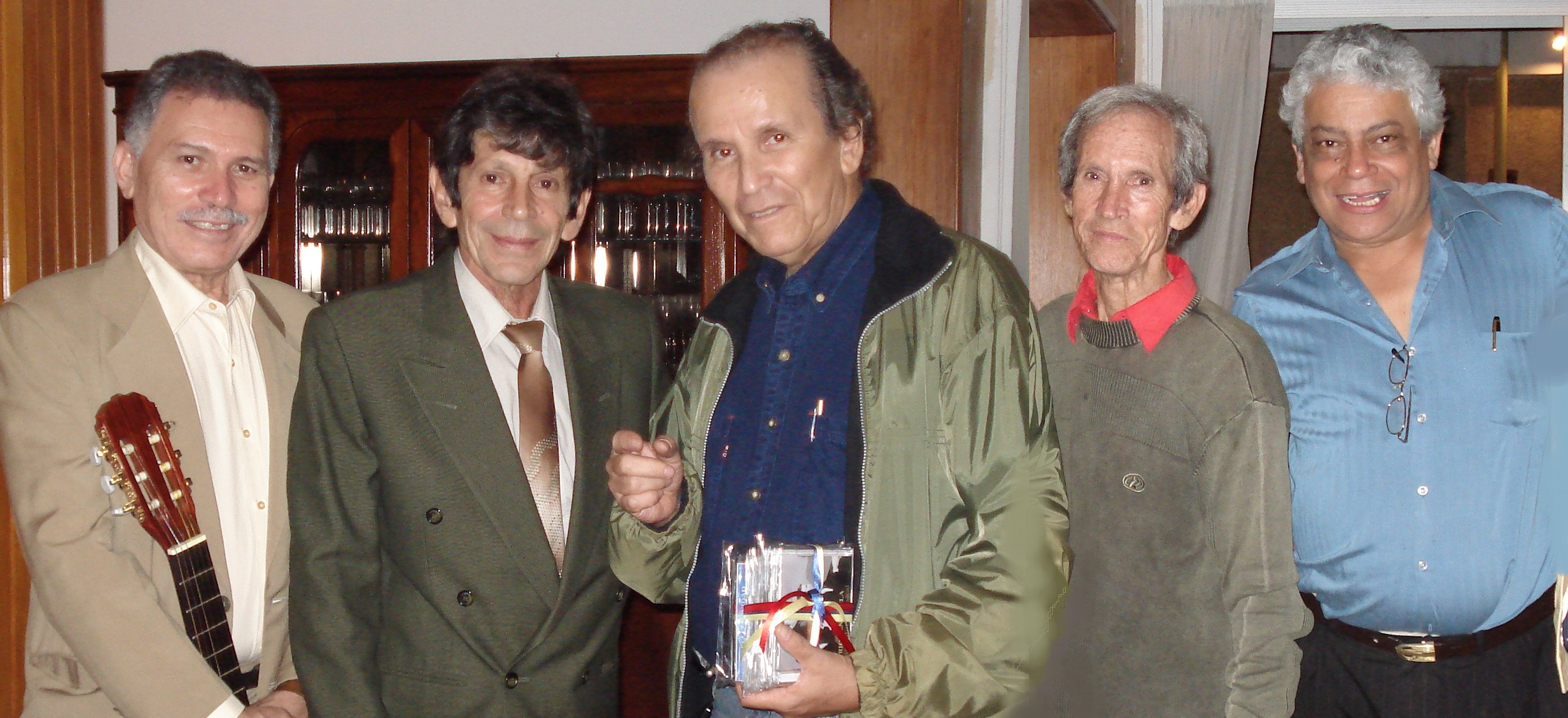 Trio Venezuela en 2007